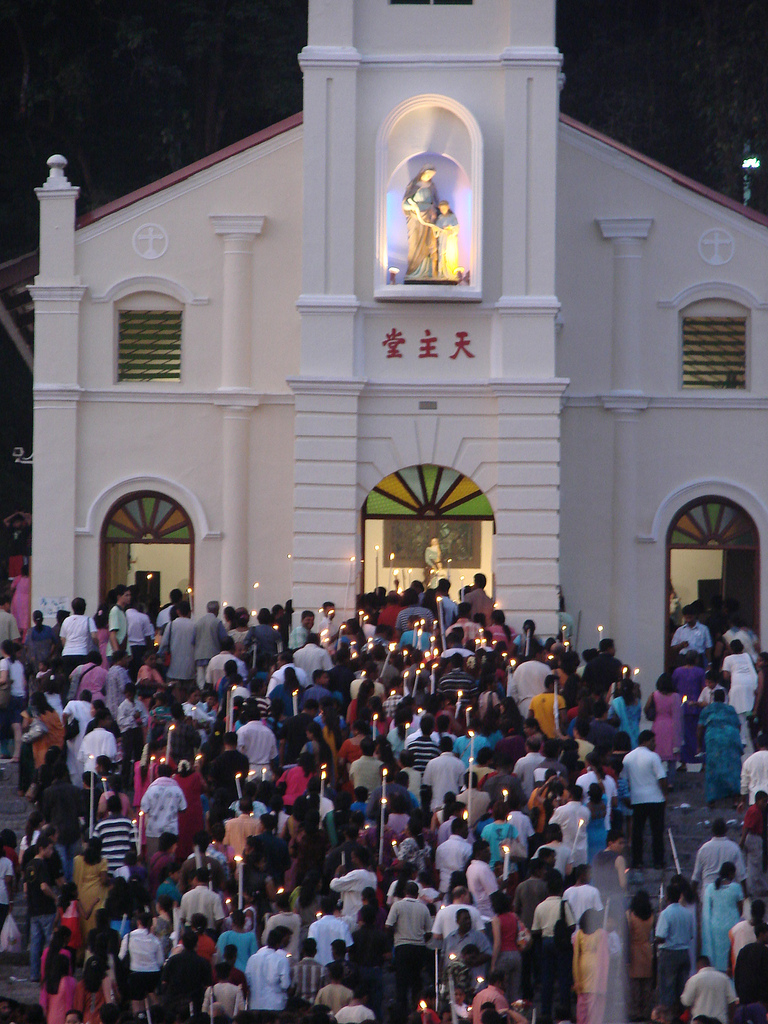 The outside of the Church of St Anne in Bukit Mertajam, Malaysia, during the saint's feast day.